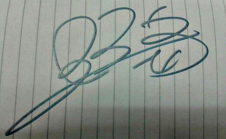 This is Don Ng's signature.